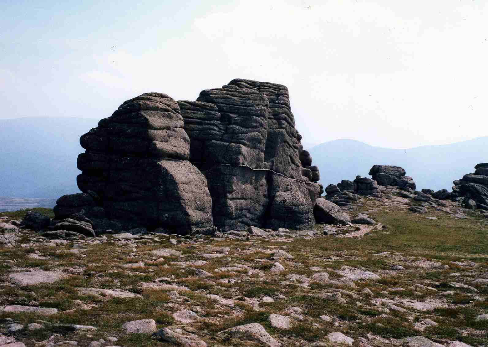 Personal photograph taken by Mick Knapton